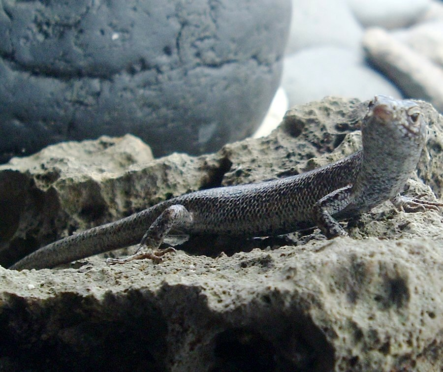 Picture of the lizard Trachylepis atlantica taken on Fernando de Noronha island in Brazil.